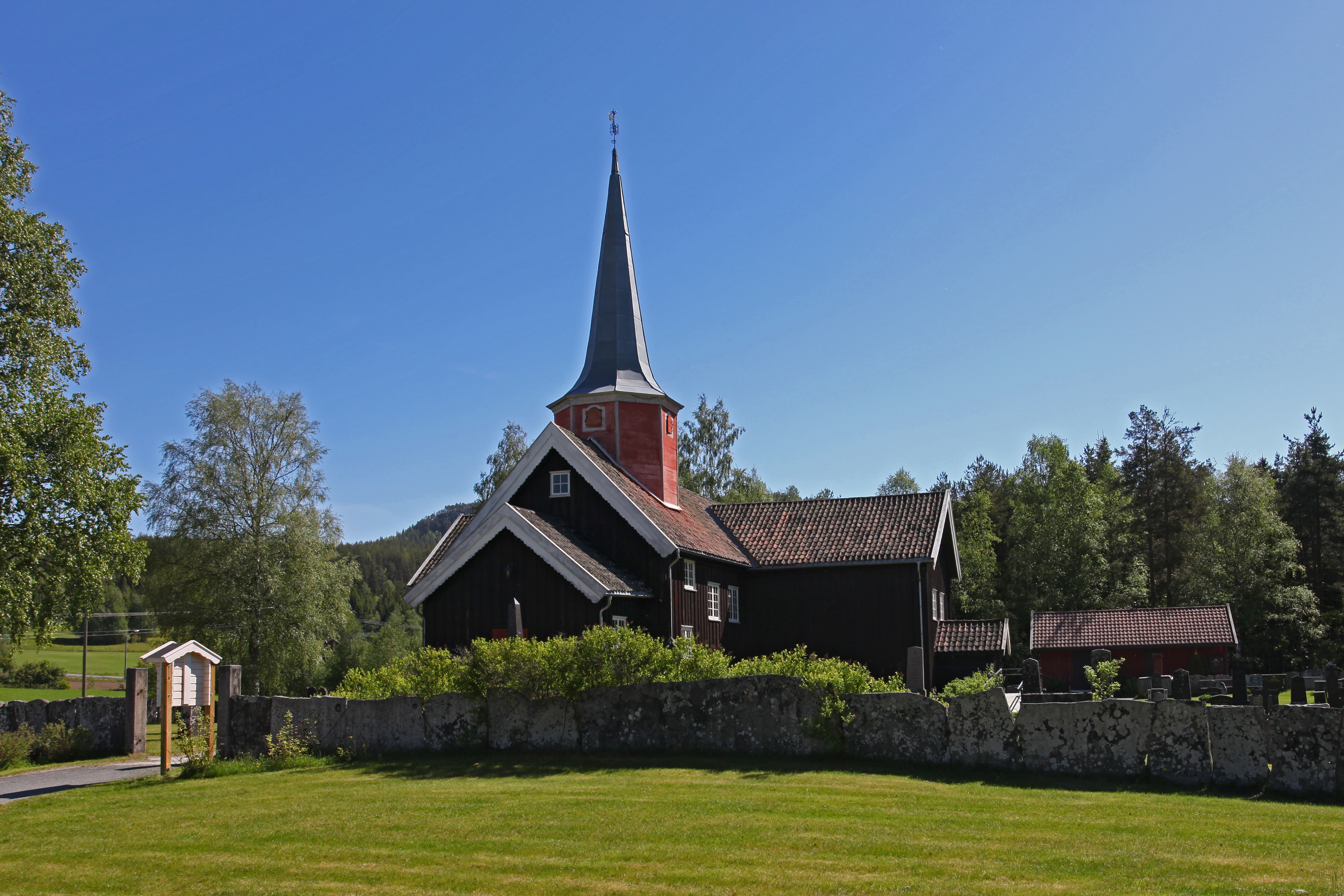 Picture of Flesberg stave church (Buskerud - Norway)